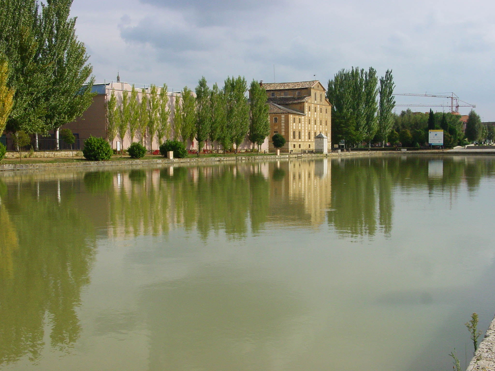 Factory of flour San Antonio, at the dock of the Channel of Castile in Medina de Rioseco, Valladolid Spain.